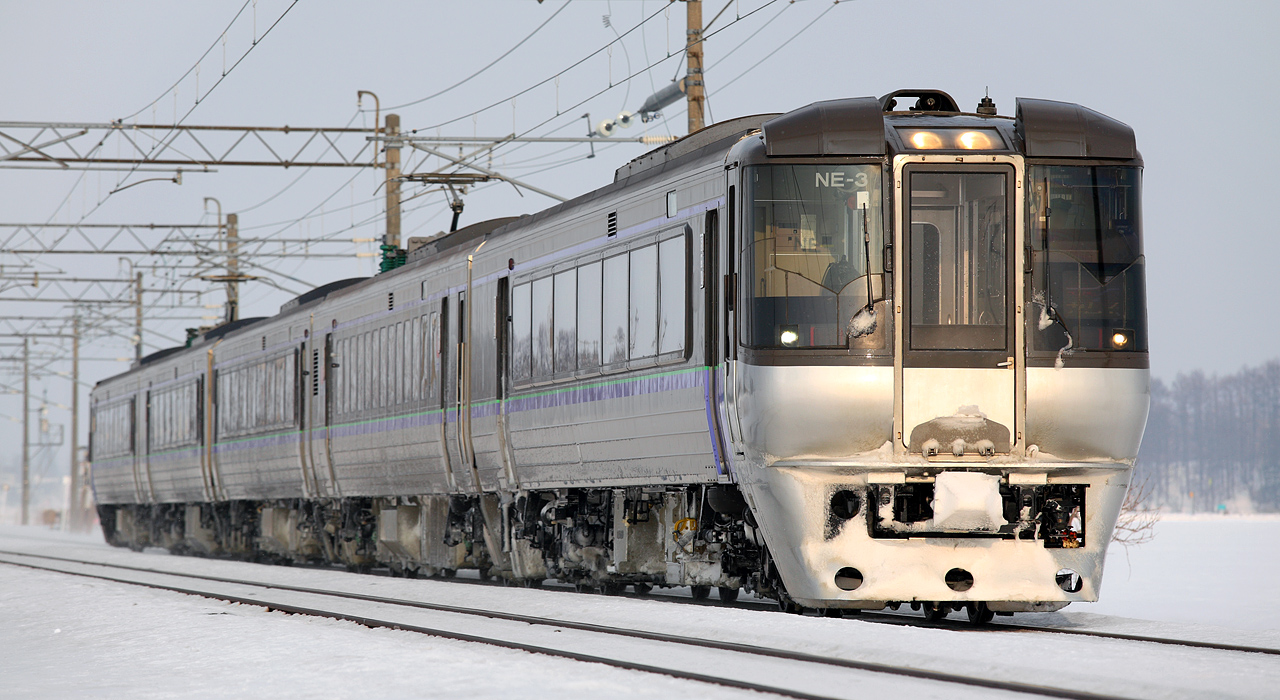 JR Hokkaido 785 series EMU set NE-3 on a Super Kamui limited express service (3030M) between Minenobu and Iwamizawa stations on the Hakodate Main Line